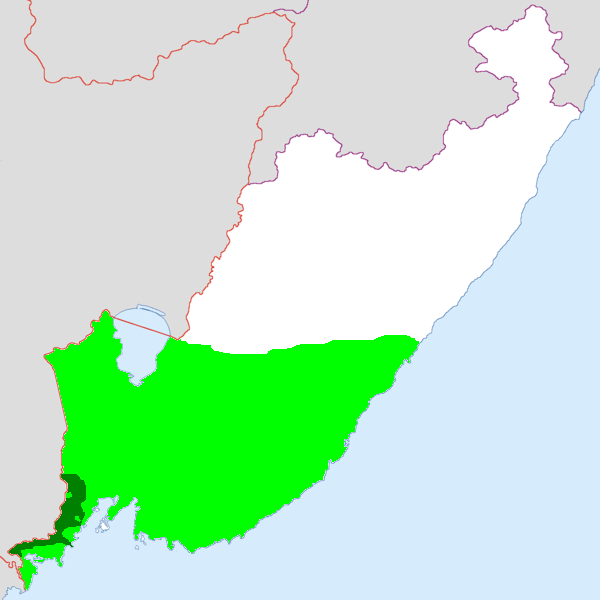 Amur Leopard distribution - Primorye, Rusia